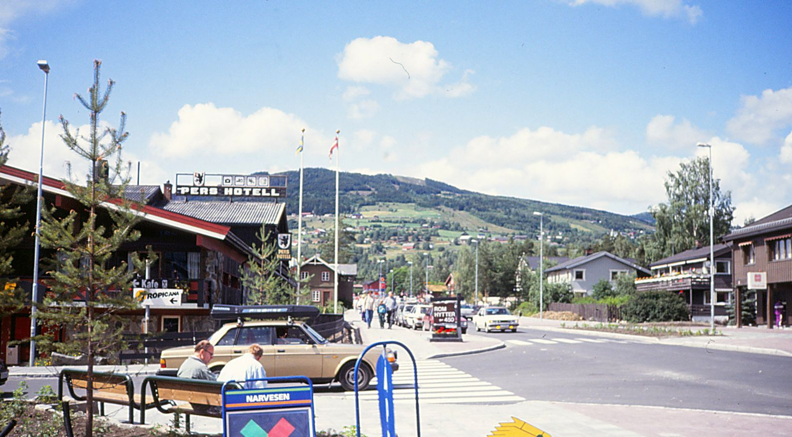 Main Street in the city Gol in Norway. July 10, 1993.